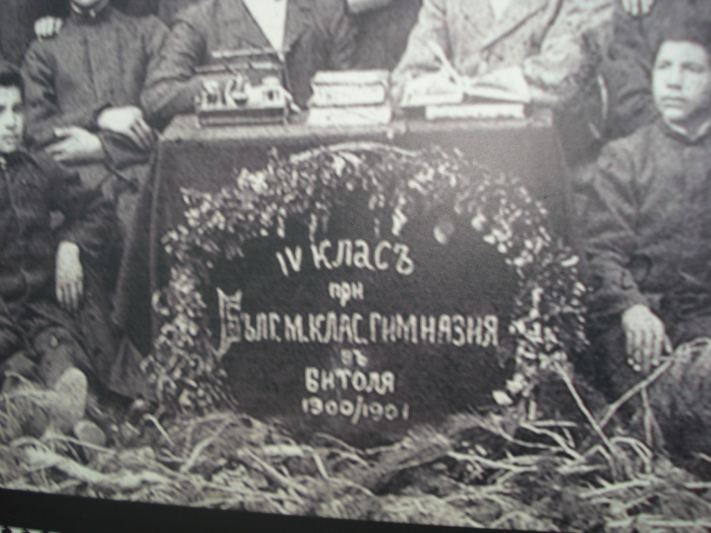 Excerpt from the photograph of the 1900-1901 graduates, among whom was Nikola Karev, from the Bulgarian Gymnasium in Bitolya.